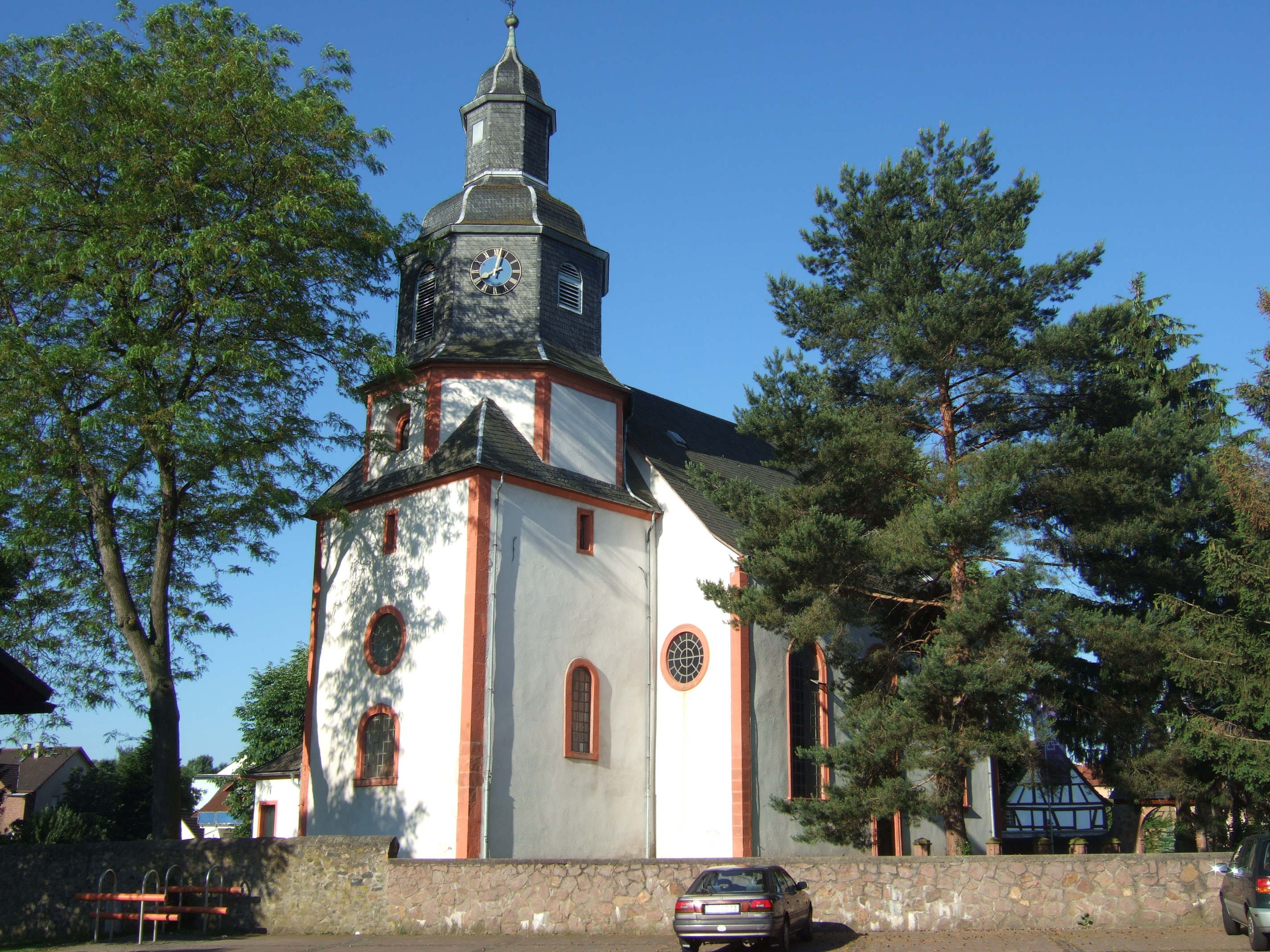 Protestant Church in Gundernhausen, near Darmstadt, Germany